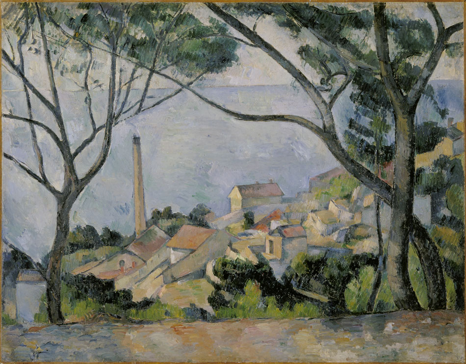 Paul Cézanne, The Sea at l'Estaque, 1878-79, oil on canvas, 73x92 cm, Musée Picasso, Paris.